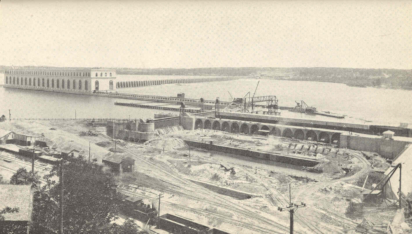 General view of the works of the Keokuk-Hamilton Dam from the Iowa shore Subject: Keokuk Dam (Iowa and Illinois), Keokuk-Hamilton Dam (Iowa and Illinois), Dams Geographic Subject: United States--Iowa--Keokuk Dam, United States--Illinois--Keokuk Dam Tag: Dams